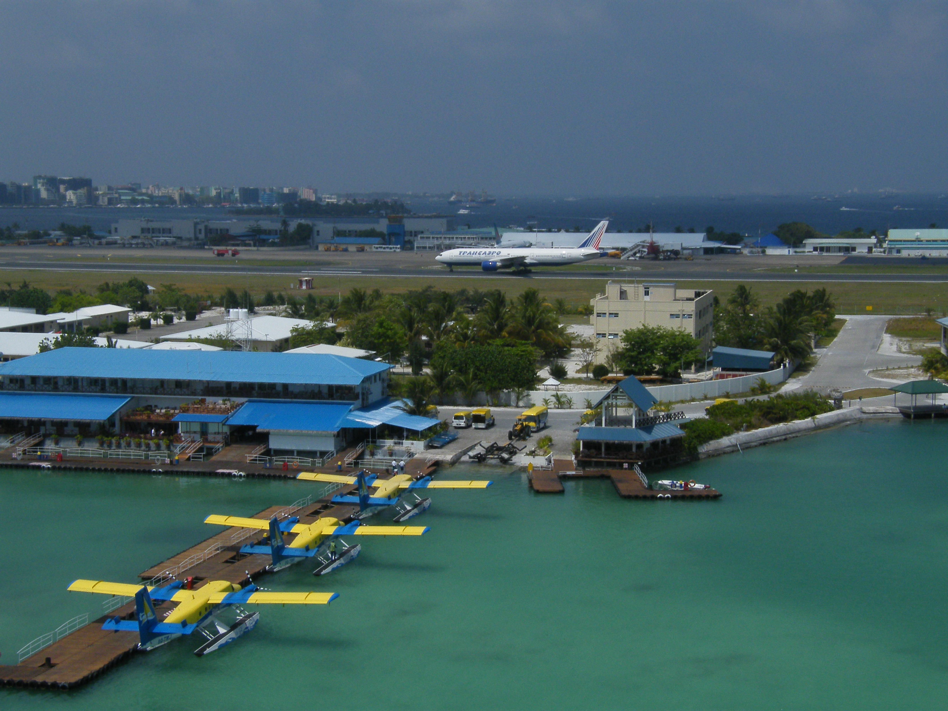 Tower view of Male International Airport